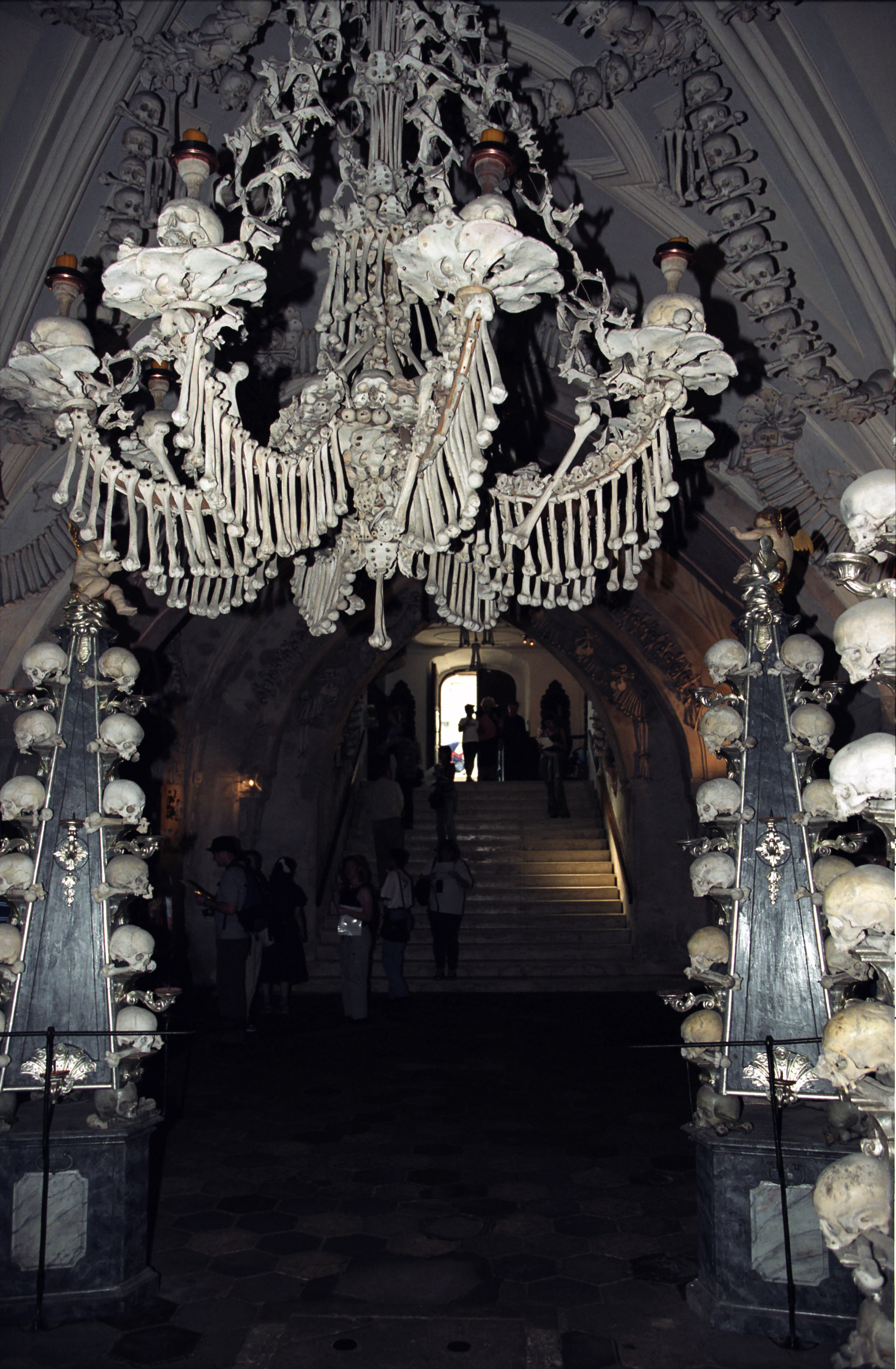 Kutná Hora, The Sedlec Ossuary